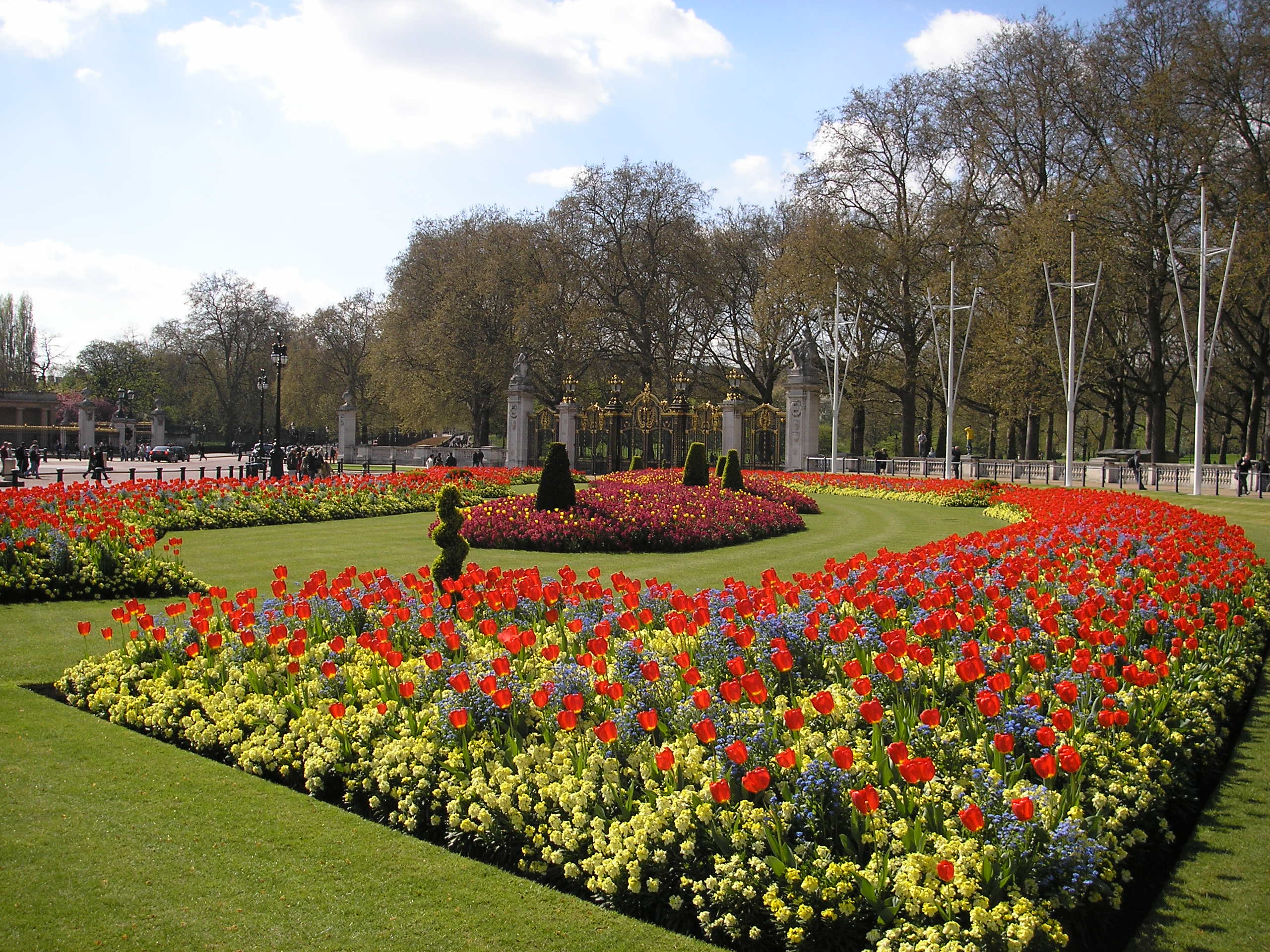 Flower beds at The Mall in London.